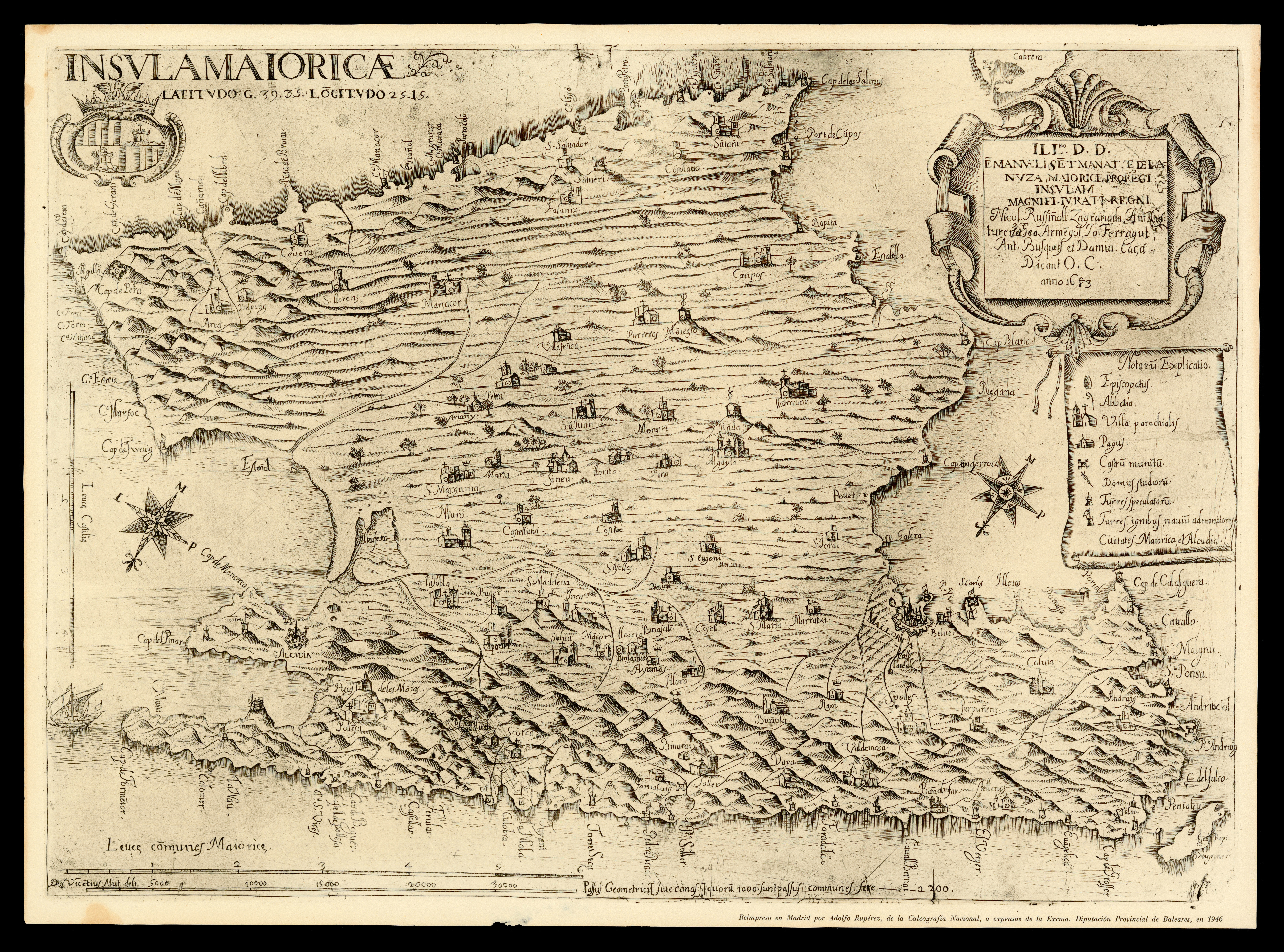 Map of the island of Majorca delineated by Vicente Mut and dated 1683. Place names in Catalan and legends in Latin. Reprinted in Madrid in 1946 by Adolfo Rupérez, of the Calcografia Nacional, at the expense of the Diputación de Baleares. Actual dimensions: 42 x 58 cm